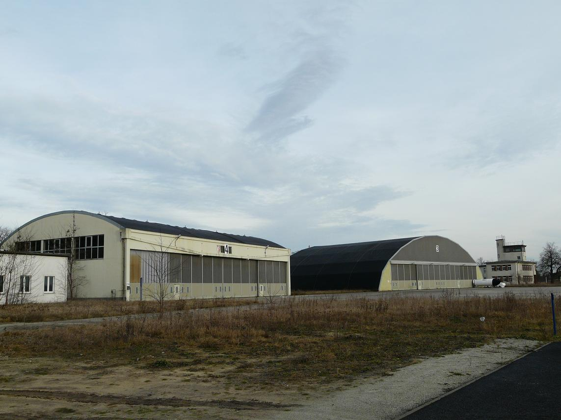 Cottbus Airfield, Hangars 4 and 3 and the Tower.